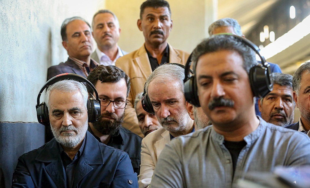 The opening ceremony of the filming of the film "23 People", adapted from a book of the same name derived from the memories of a group of prisoners of Iran–Iraq War, was held on Friday, October 6, 2018, with the presence of Commander of the Ghods Force Qasem Soleimani in the city of Chardanjeh of Tehran. "Twenty Three People" is a new product of the Center for Film and TV Series of the Owj Arts and Media Organization, directed by Mehdi Jafari and Produced by Mojtaba Faravaradeh, is a narrative of a group of Iranian teenage warriors captured by the Iraqi forces during the Iran-Iraq war in 1981.